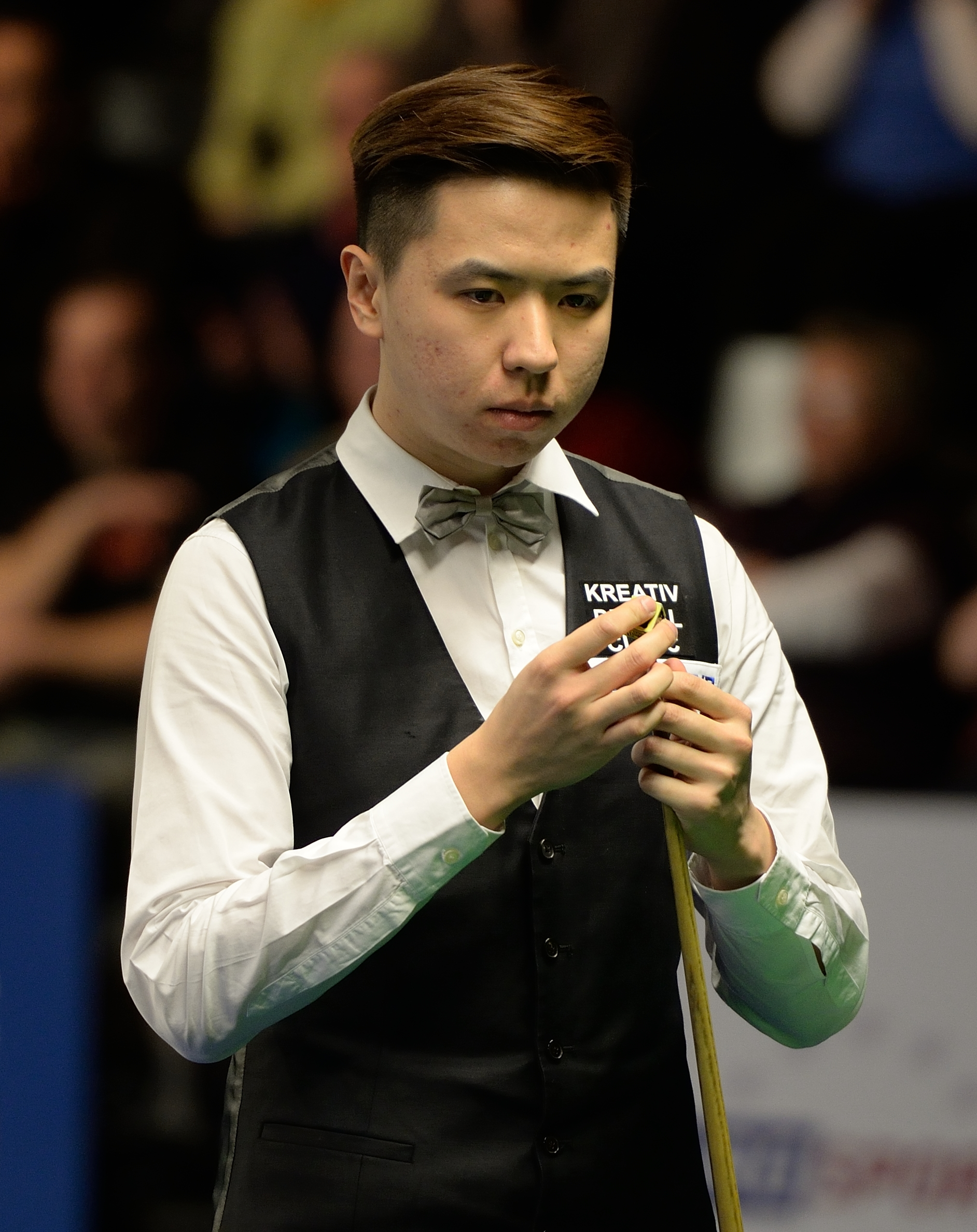 Picture taken in Berlin during the Snooker German Masters in 2015. Xiao Guodong.